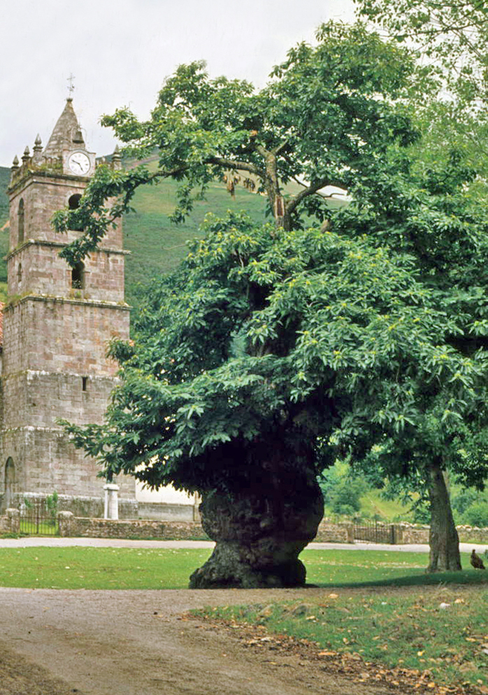 Old chestnut tree [Castanea sativa] known as "La Olla" [The Pot]. Terán, Cabuérniga, Cantabria, Spain